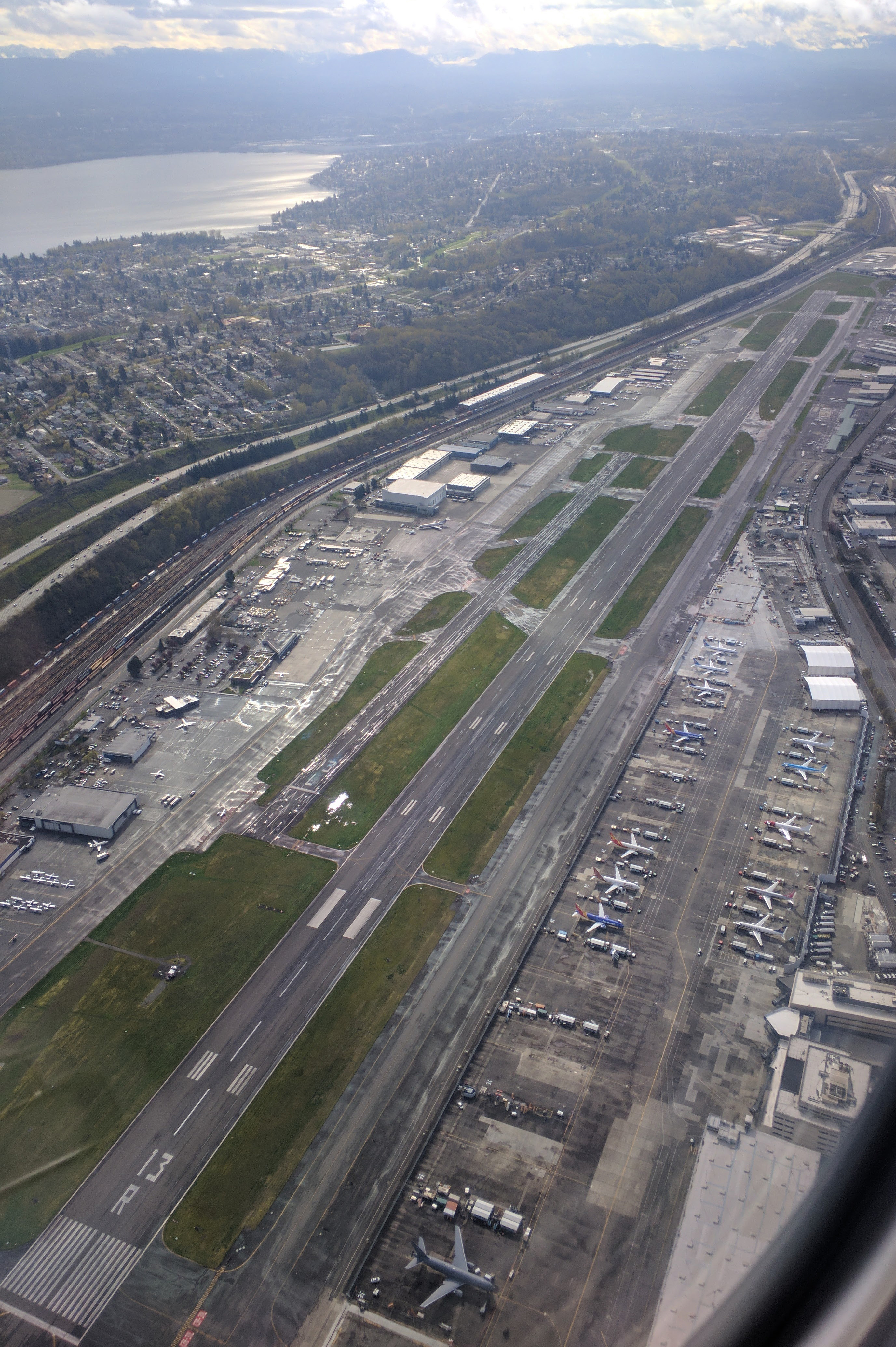 King County International Airport, or Boeing Field, Seattle, Washington, aerial from the northwest